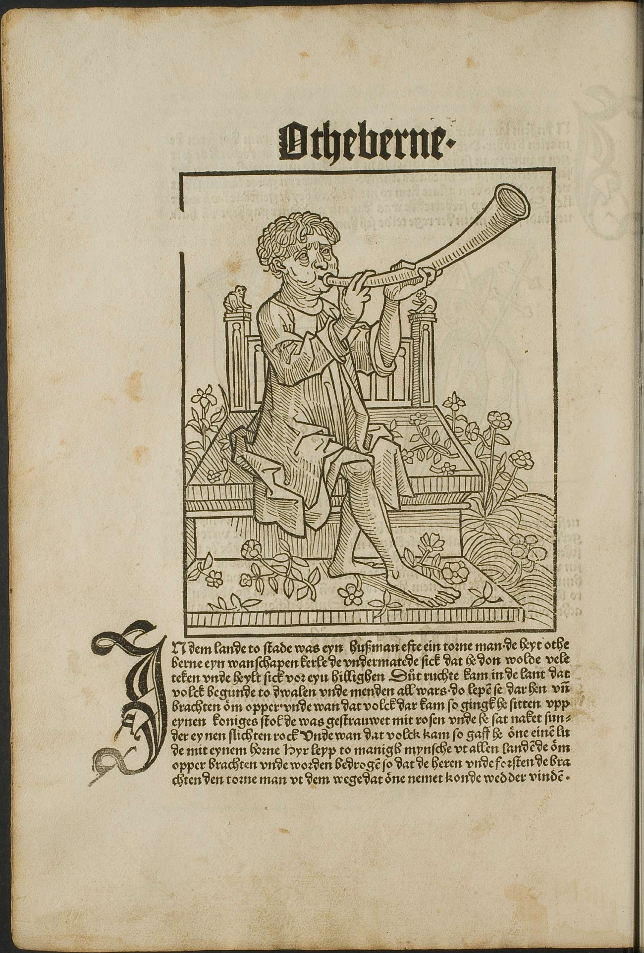 Otbert, the miracle worker from Bockel. Illustration from the incunabulum: Cronecken der Sassen (The Chronicles of Saxony) printed by Peter Schöffer in Mainz.